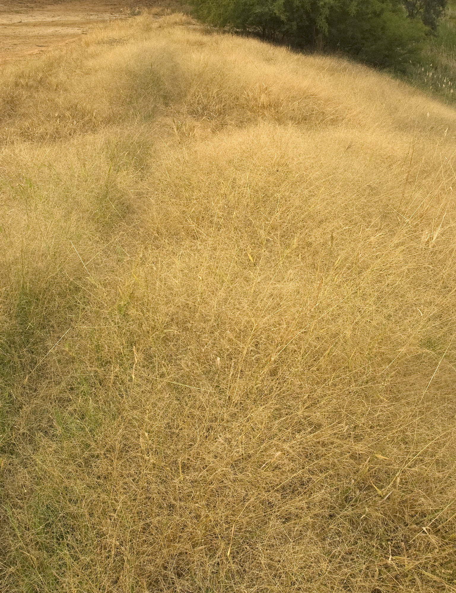 Panicum effusum photographed in the Wagga Wagga suburb of Glenfield Park.